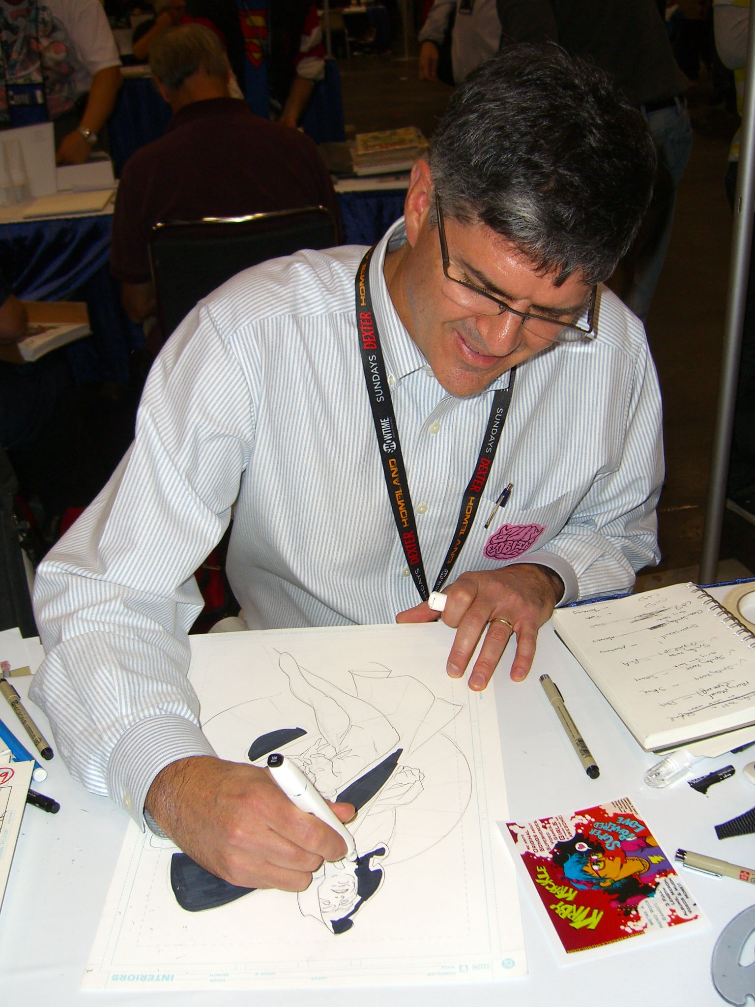 Comics creator Rick Leonardi sketching Cloak and Dagger at the New York Comic Con, October 15, 2011. This photo was created by Luigi Novi. It is not in the public domain, and use of this file outside of the licensing terms is a copyright violation.